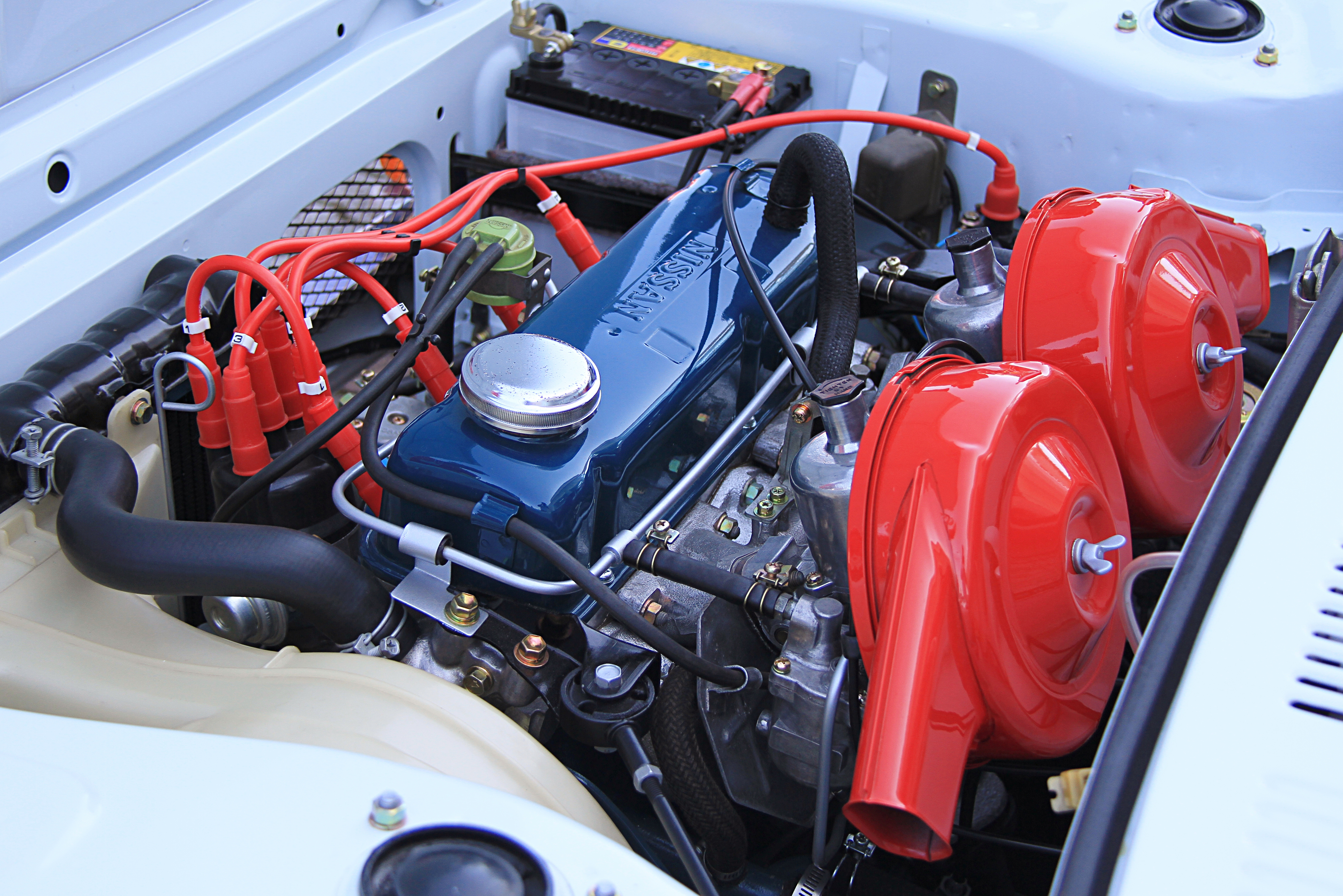 Nissan A12 (Nissan Cherry PE10)